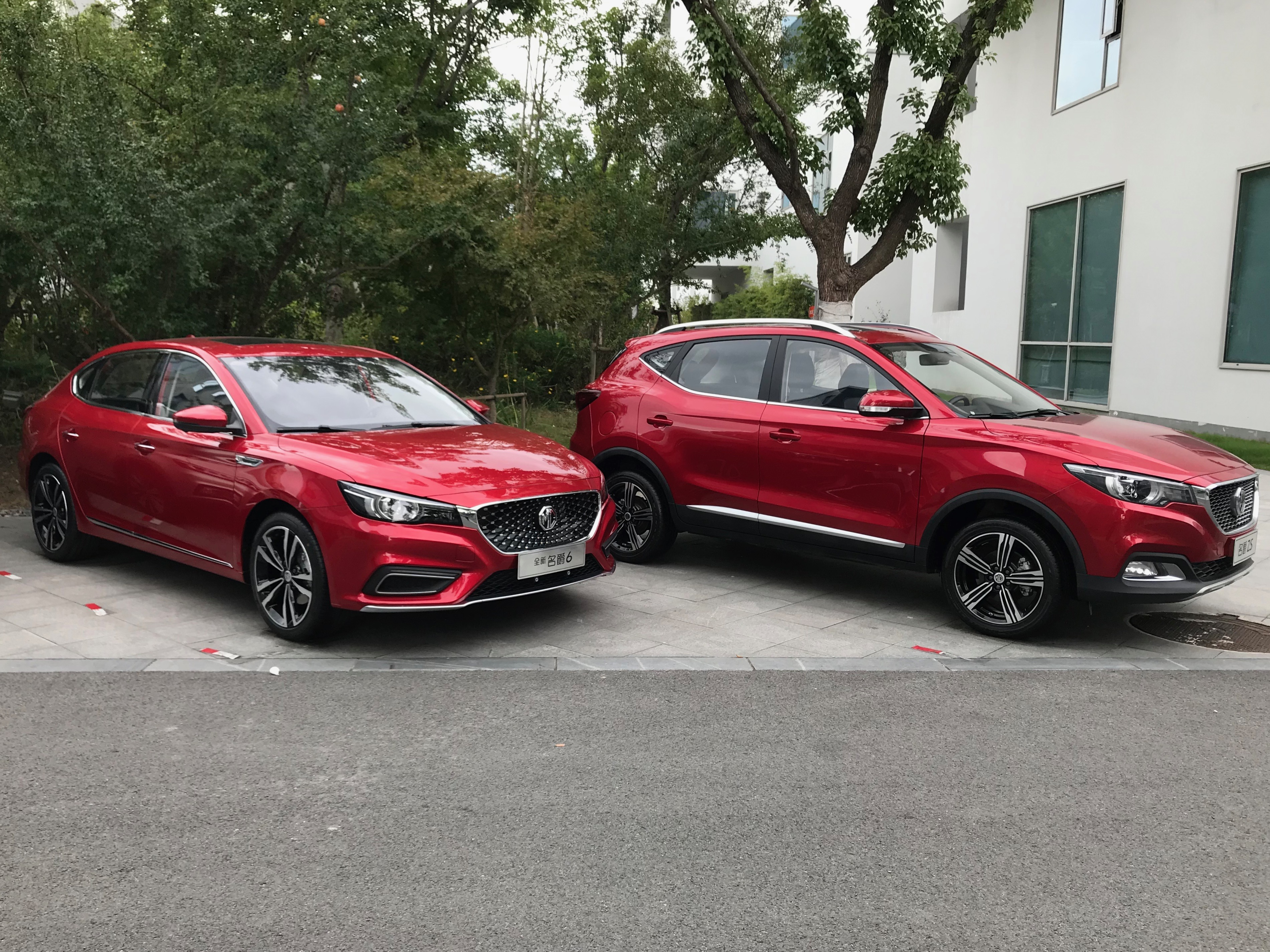 2017 MG6 and MG ZS on display.